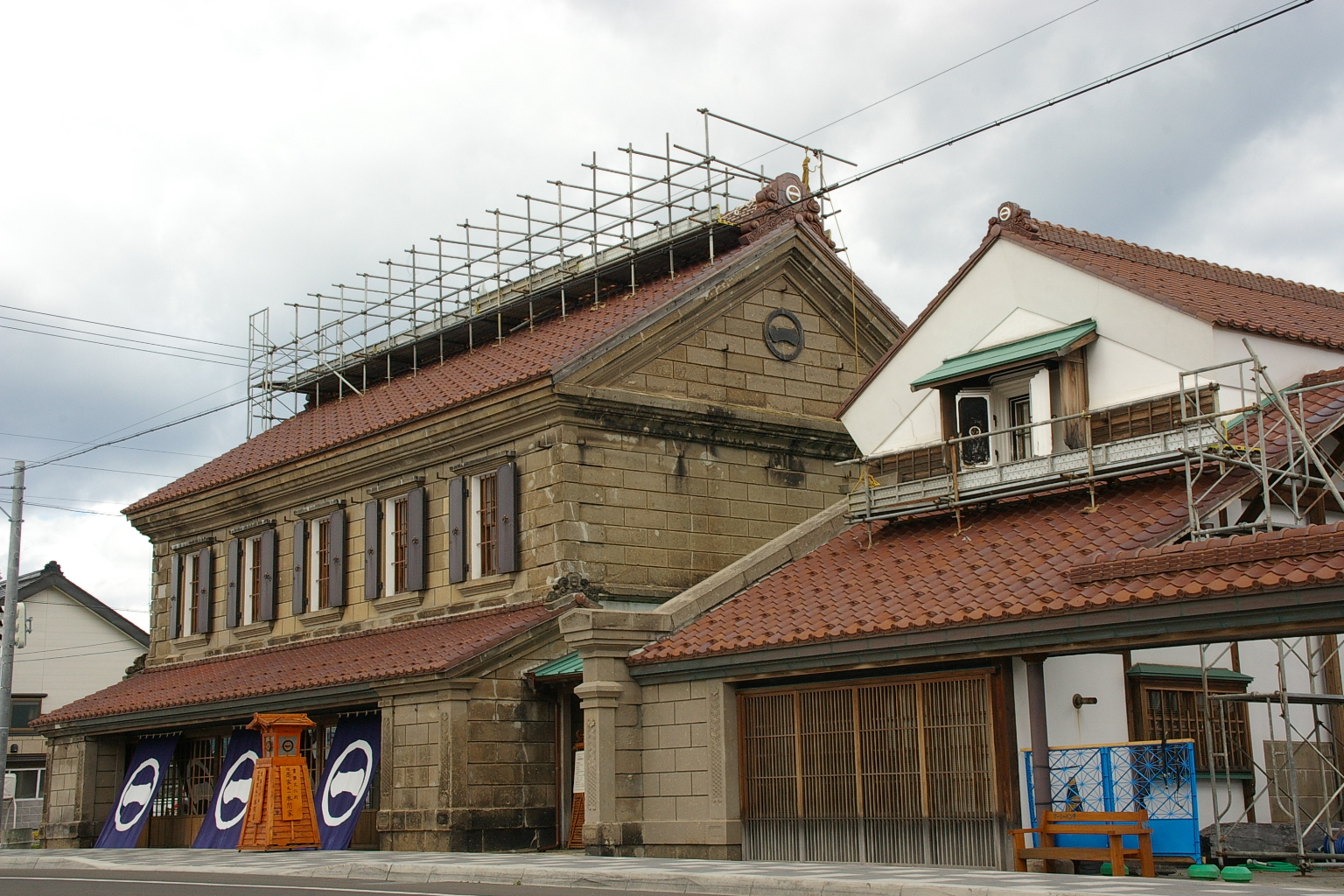 The old Homma family residence, Mashike town hokkaido.